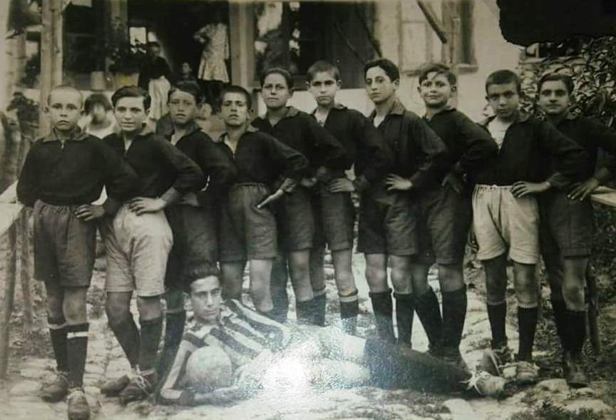 Bitola jewish youth soccer team 1930s'